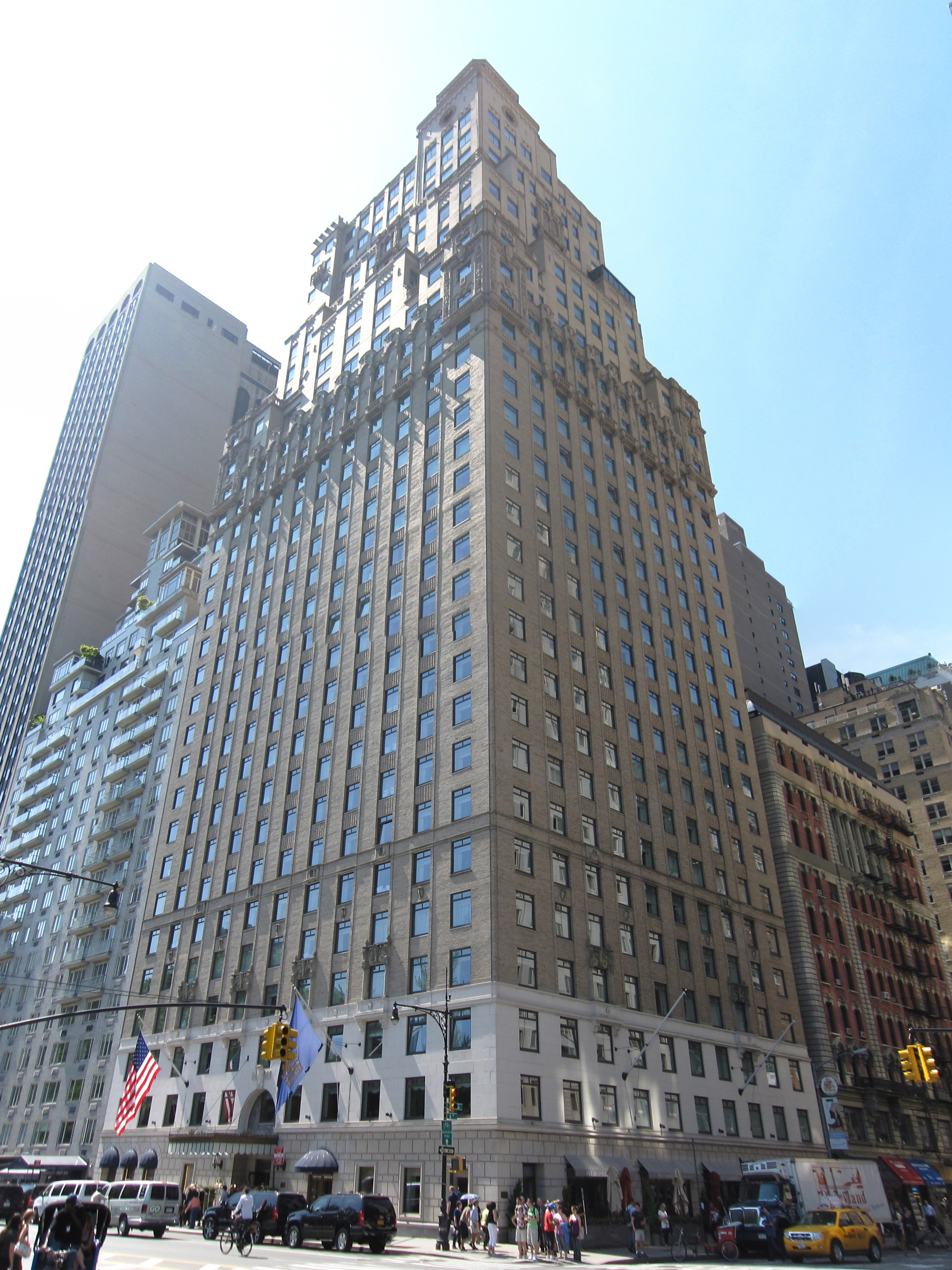 The former Hotel St. Moritz, later the Ritz-Carlton, on Central Park South. It was constructed in the 1930's.